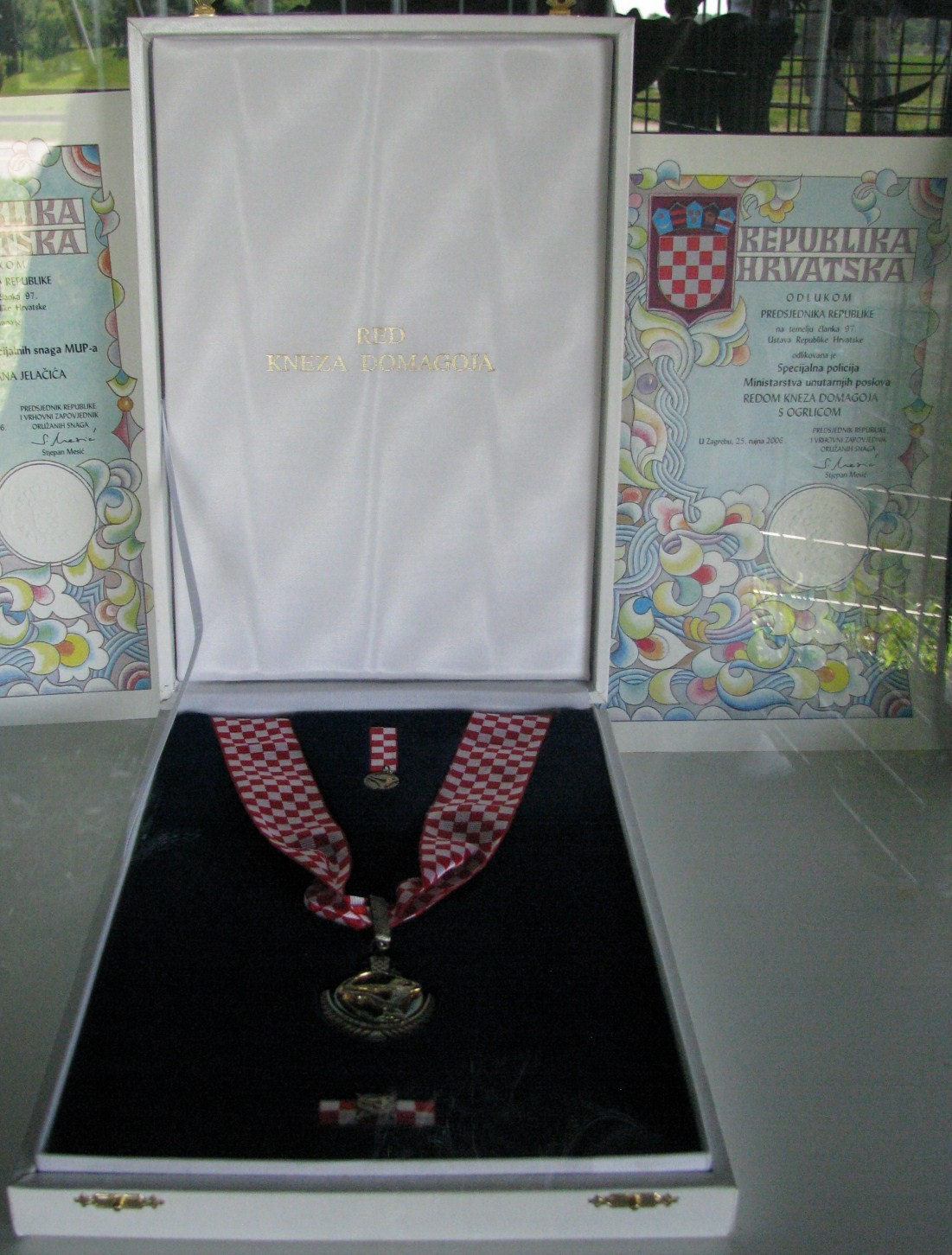 Order of Duke Domagoj (Order of Croatia)